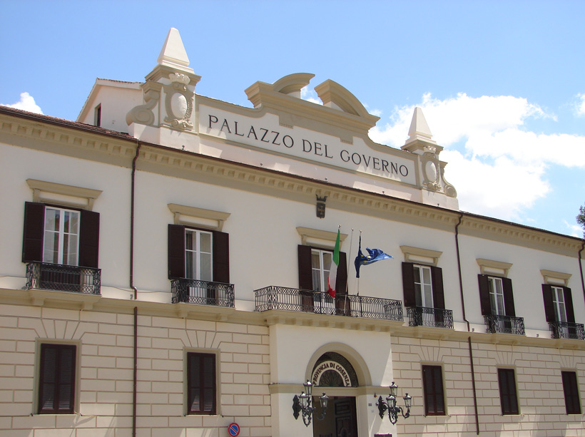 Cosenza. Piazza XV Marzo: Palazzo del Governo, seat of the provincial council